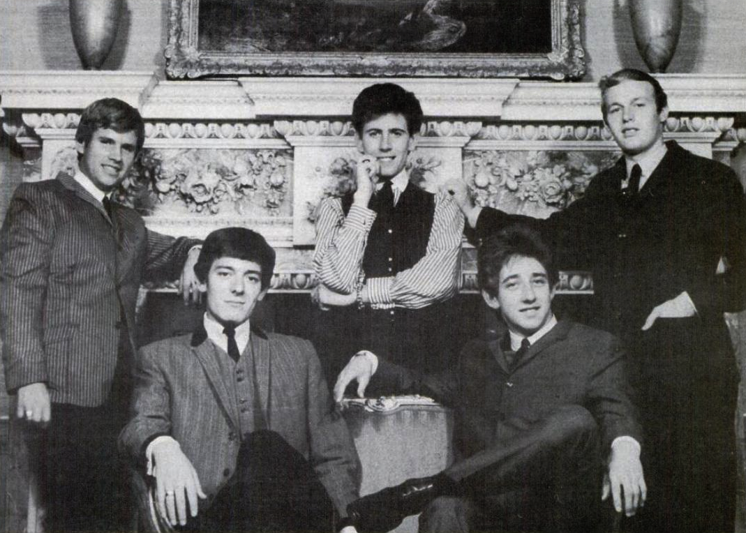 Trade ad for The Hollies's single "I'm Alive" (from left to right: Eric Haydock, Allan Clarke, Graham Nash, Tony Hicks and Bobby Elliott).To better adapt it to his respective Wikipedia article, the ad was cropped and cleaned in a graphics editing program. The original can be viewed at the source below.